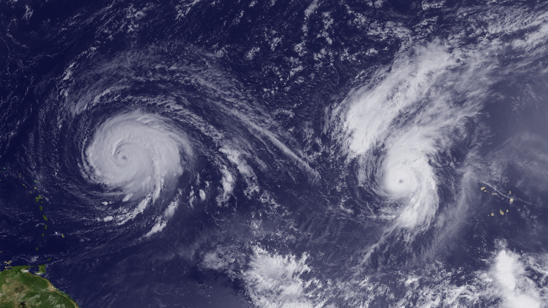 Hurricanes Igor and Julia churn in the Atlantic Ocean taking advantage of very warm sea surface temperatures to both reach category 4 strength. This image from 1145Z taken by GOES-East shows the relative sizes of the storms. Igor still has Bermuda in its sites while Julia is expected to remain well away from land.